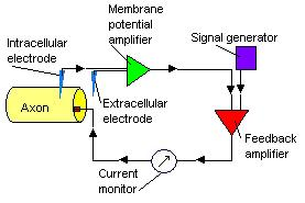 Voltage clamp - I made this diagram.da matchi..